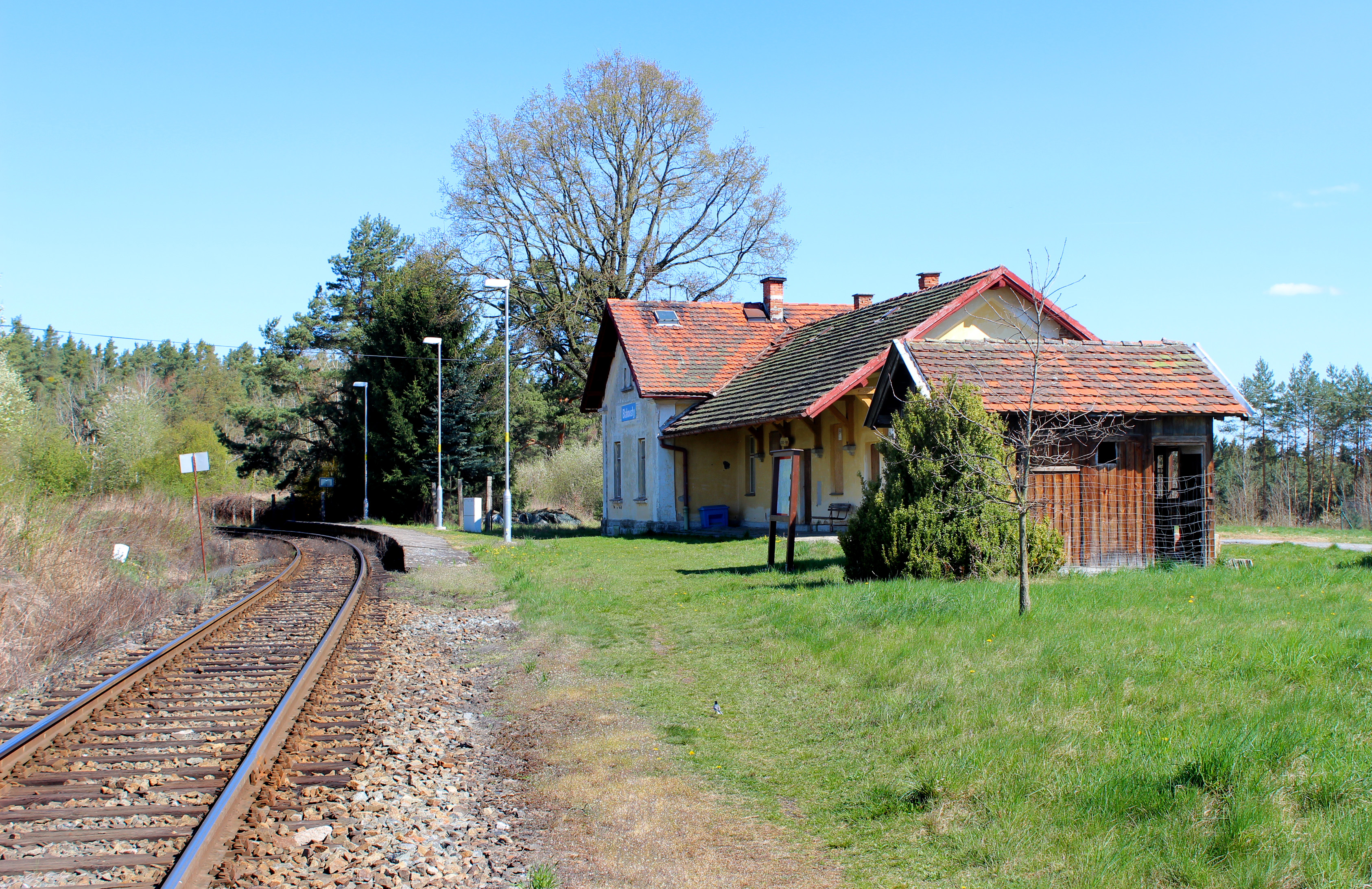 Train station in Blahousty, part of Erpužice village, Czech Republic